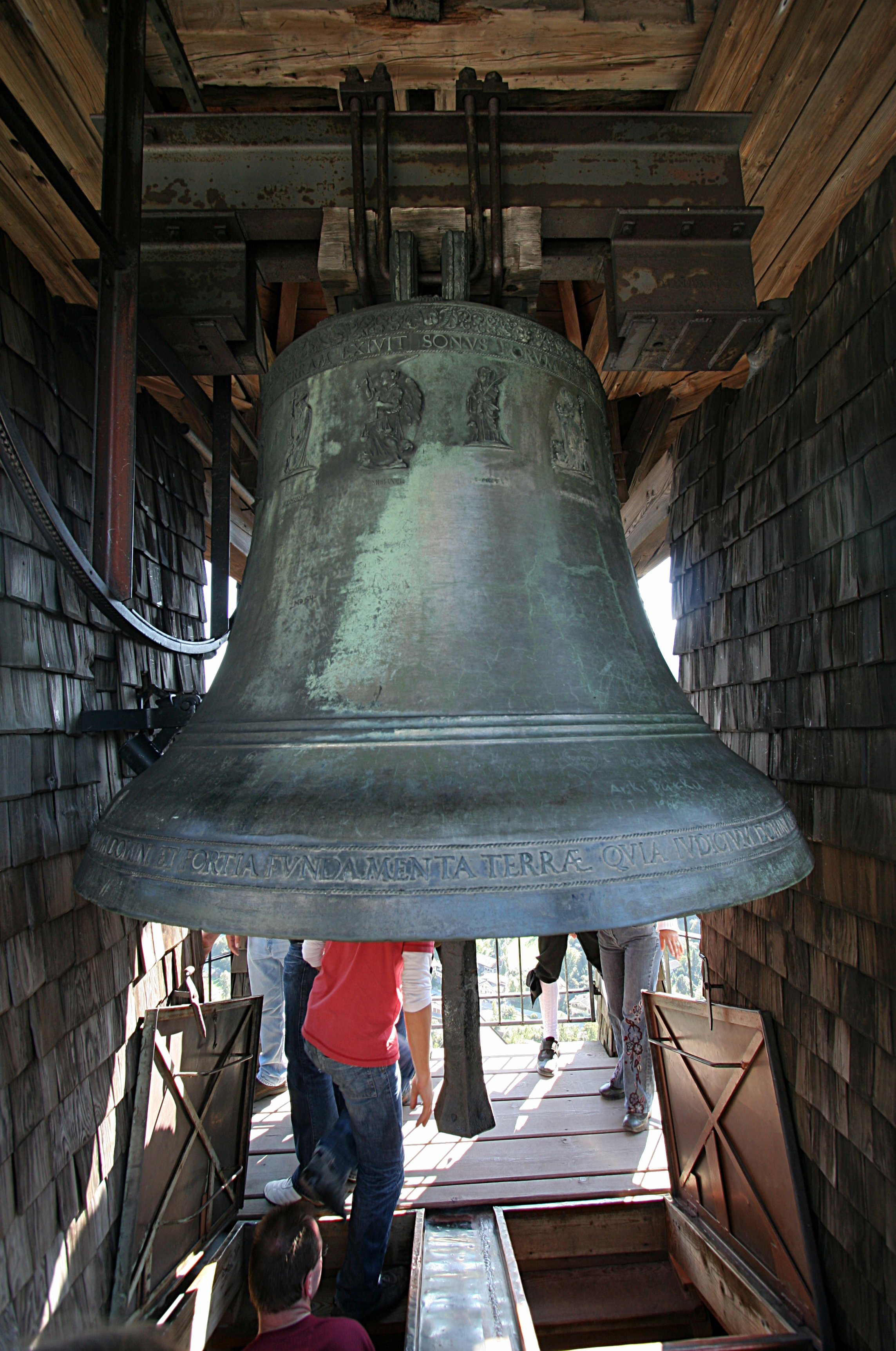 Main bell of castle Hohenwerfen